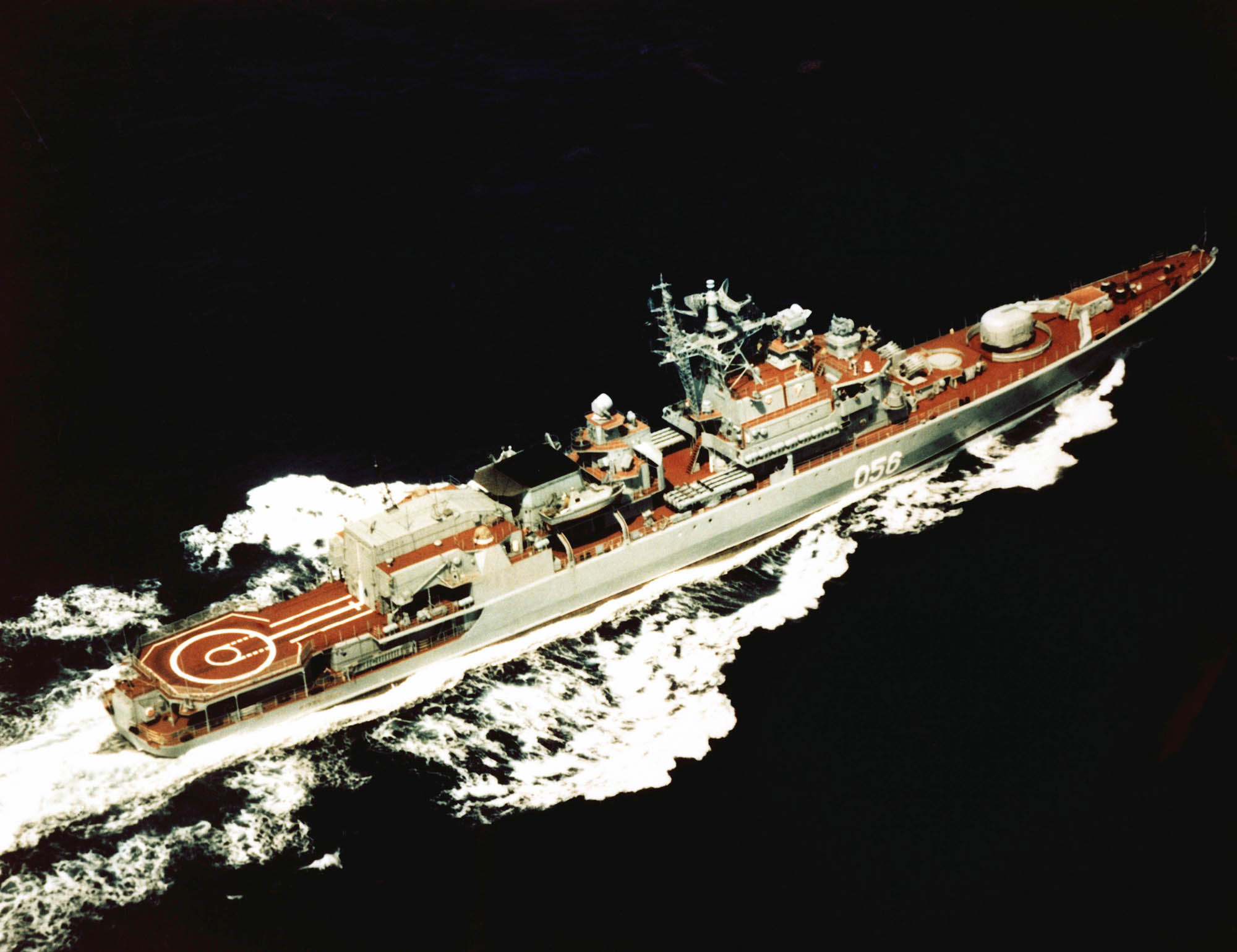 Soviet KGB PSKR project 11351 Menzhinskiy.